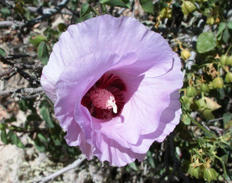 Gossypium sturtianum